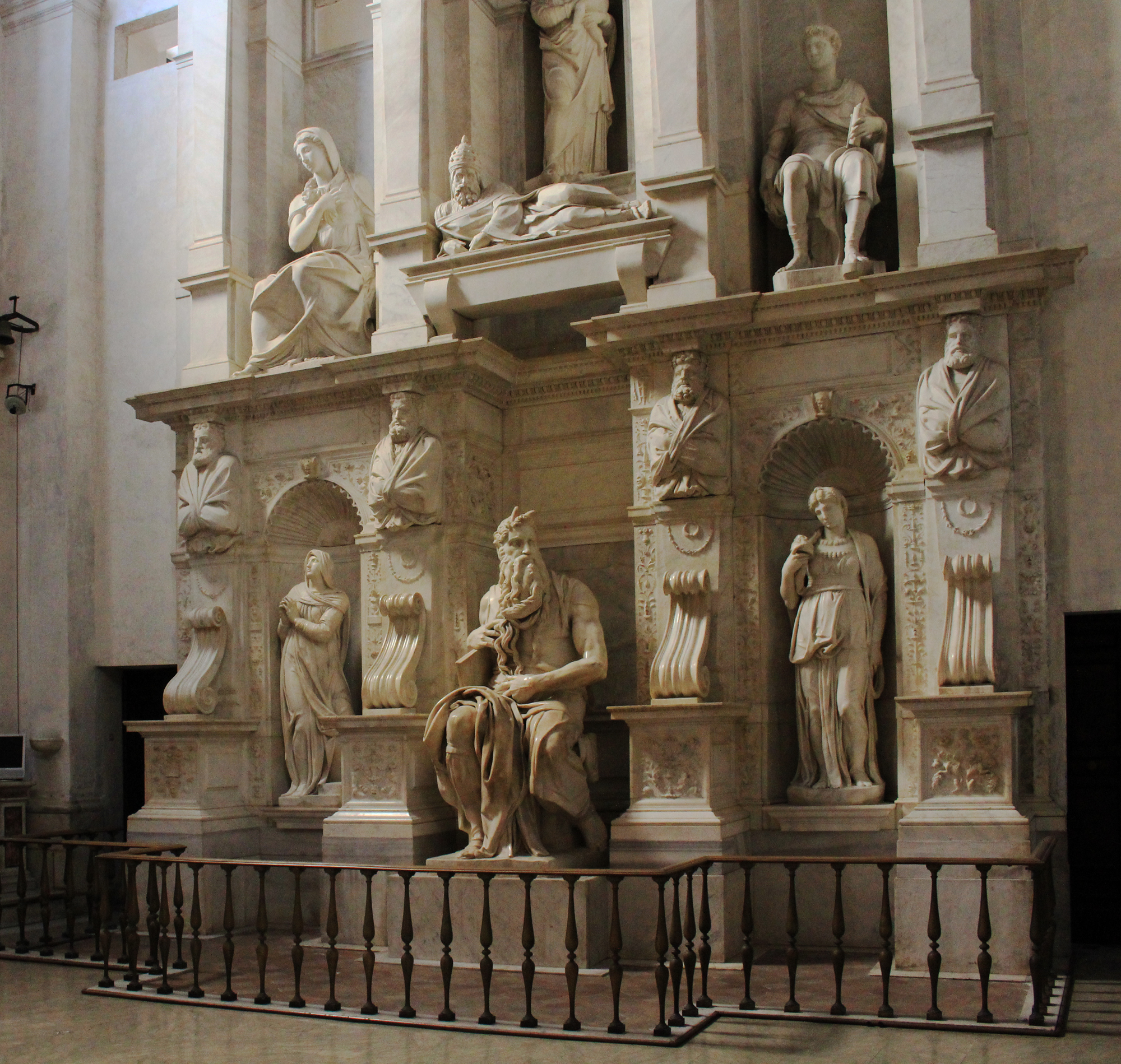 Michelangelo's grave for Julius II in basilica San Pietro in Vincoli, Rome, Italy